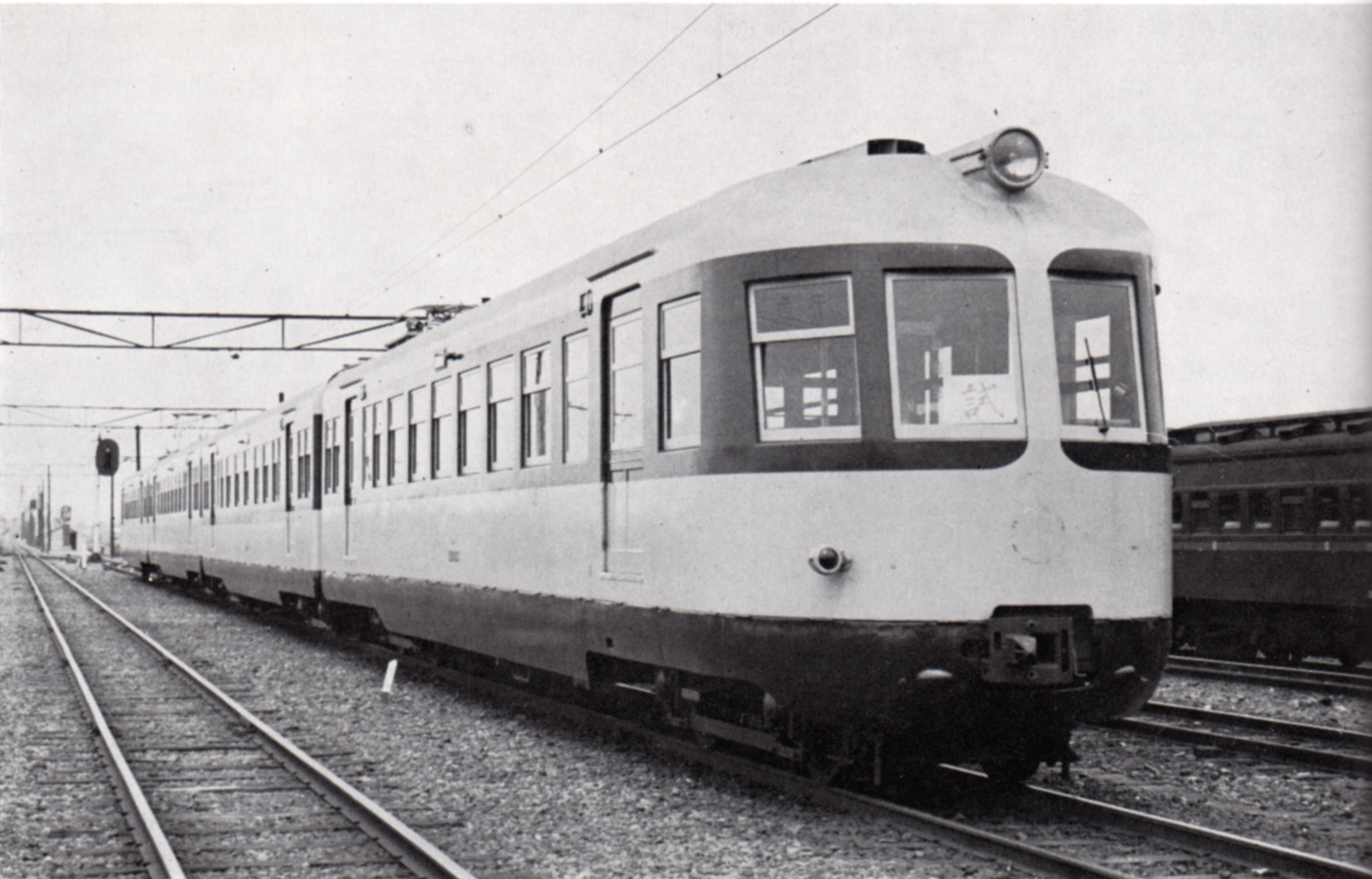 Japanese Governmental Railways type Moha-52 electric multiple units, second model. The photo was taken at Miyahara.